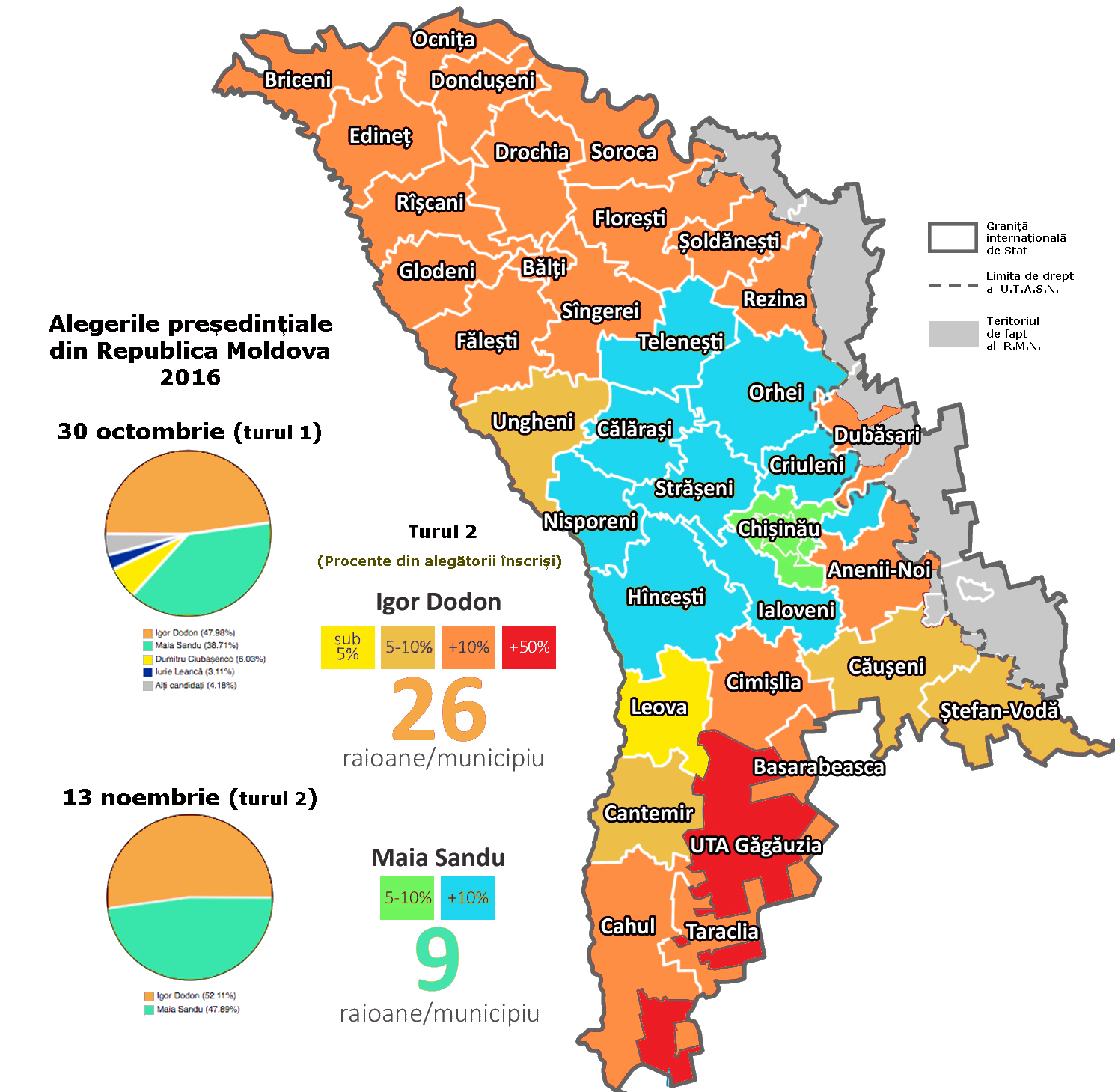 Map of the 2016 elections in Moldova according with the sources available 2016-12-19